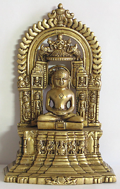 Lord Mahavir, The Torch-bearer of Ahimsa